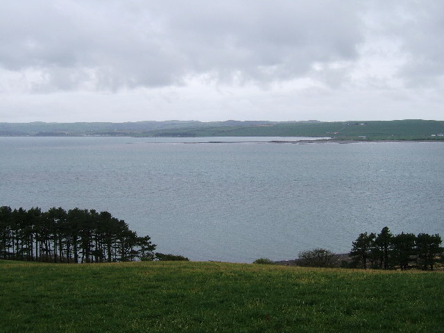 'The Scar' sandbank on Loch Ryan